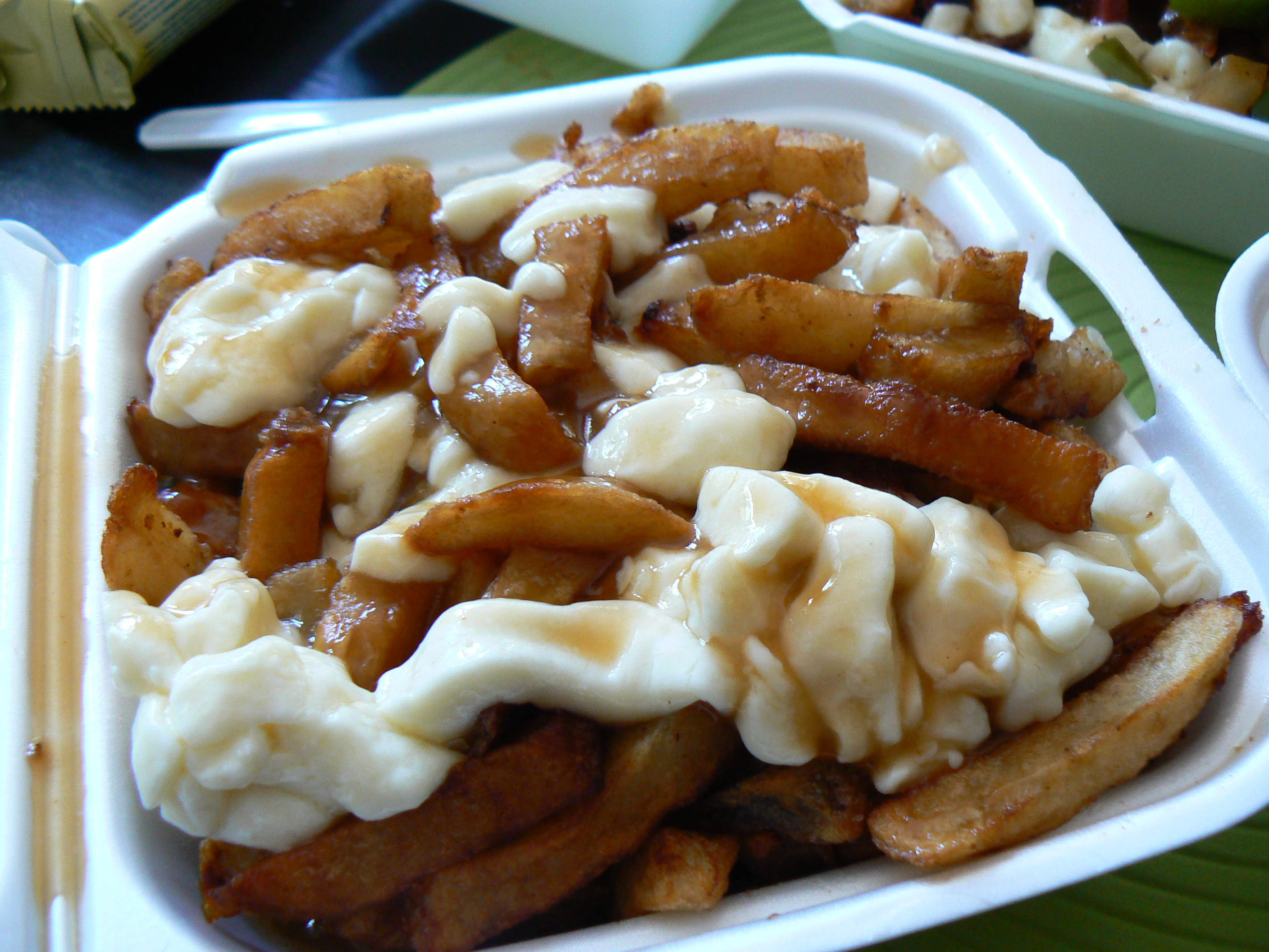 Poutine